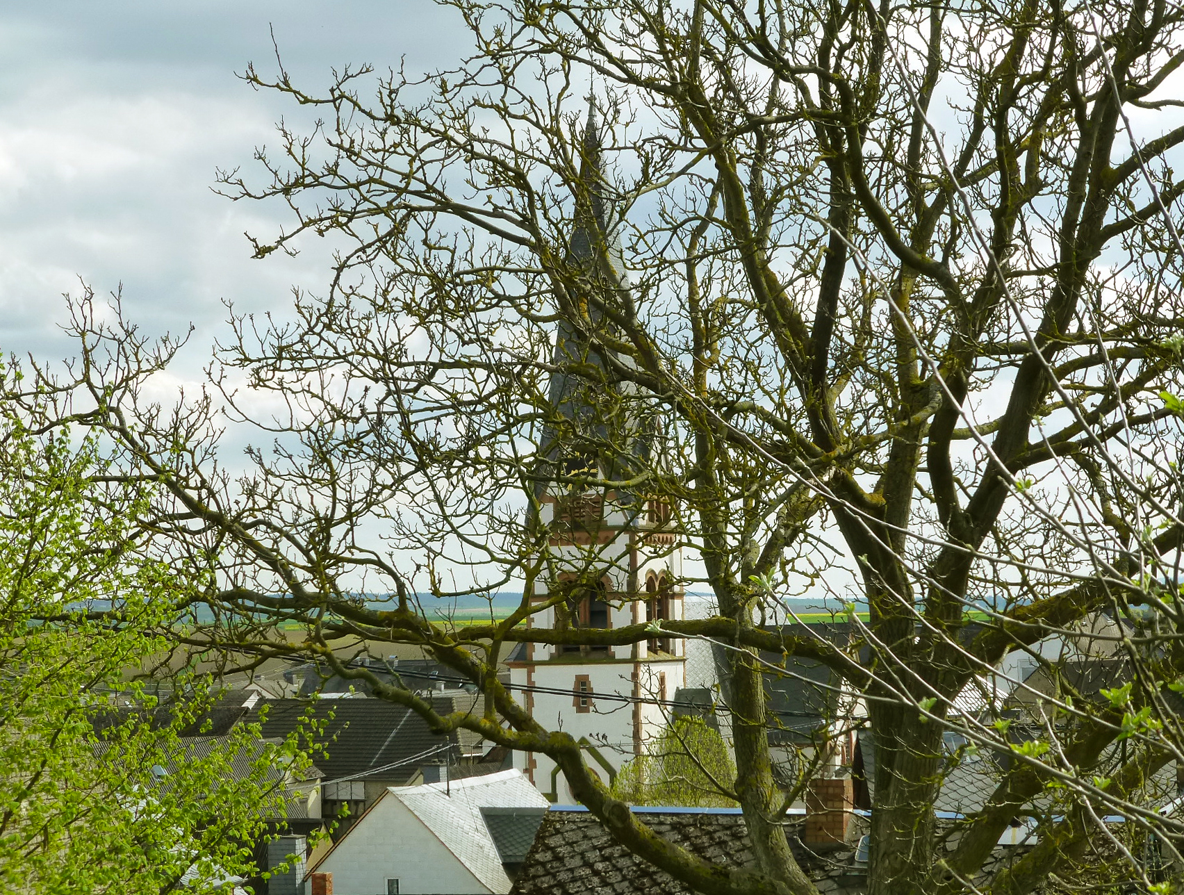 Distant view of the church tower of Nochern, Rhineland-Palatinate, Germany.